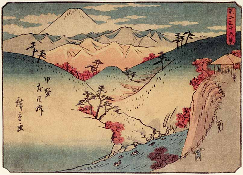 Dog Eye Pass in Kai Province (Japanese: 甲斐犬目峠, Kai inume tōge). No. 32[1] (or No. 4[2]) in the series Thirty-six Views of Mount Fuji (first version).